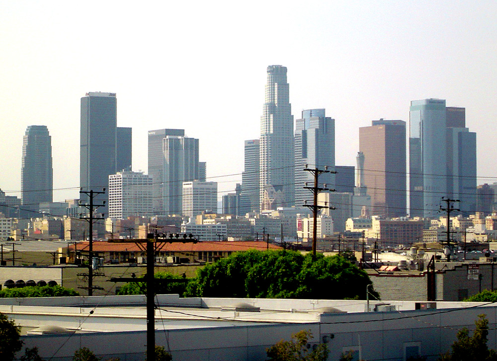 The Downtown Los Angeles Skyline, from the Santa Ana Freeway. New Downtown is seen rising above the older Downtown district. June, 2005 Kapampangan: Downtown Los Angeles mayayakit manibatan keng Santa Ana Freeway